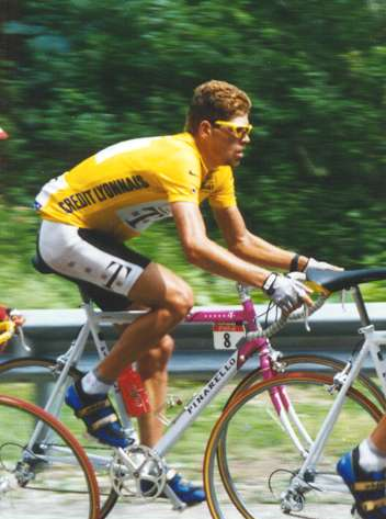 Jan Ullrich and Udo Bölts crossing the Vosges mountains together in the 1997 Tour de France.